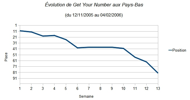 Evolution in the Dutch singles chart of Mariah Carey's song, Get Your Number.